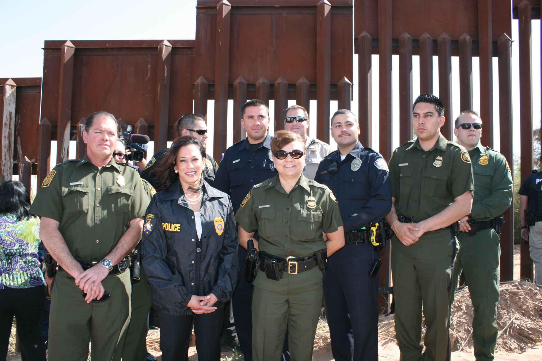 Attorney General Kamala D. Harris joined by representatives of Imperial Valley Attorney General Kamala Harris joins state leaders to tour border and discuss strategies to combat transnational gang crime. Imperial – March 24, 2011.